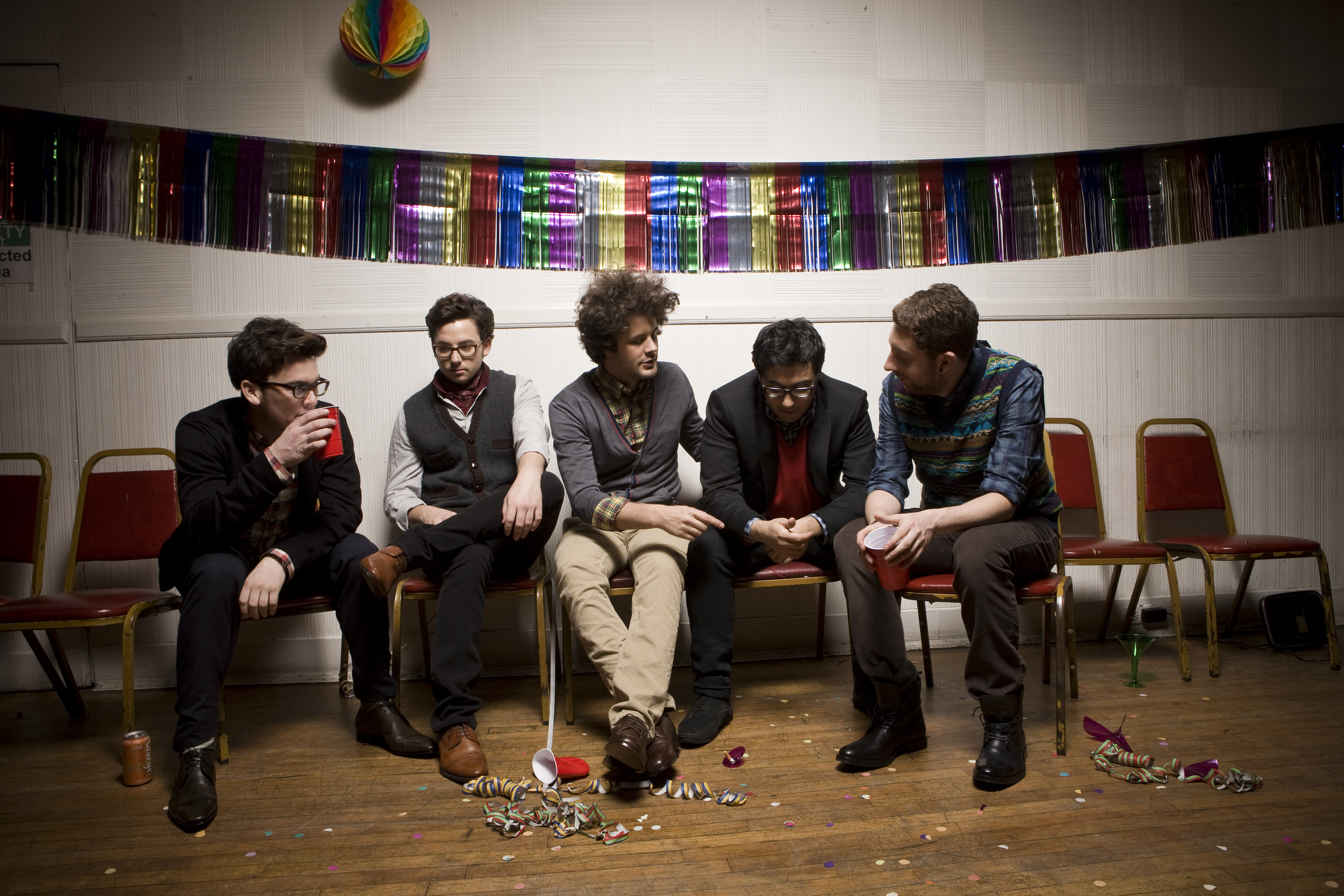 Passion Pit